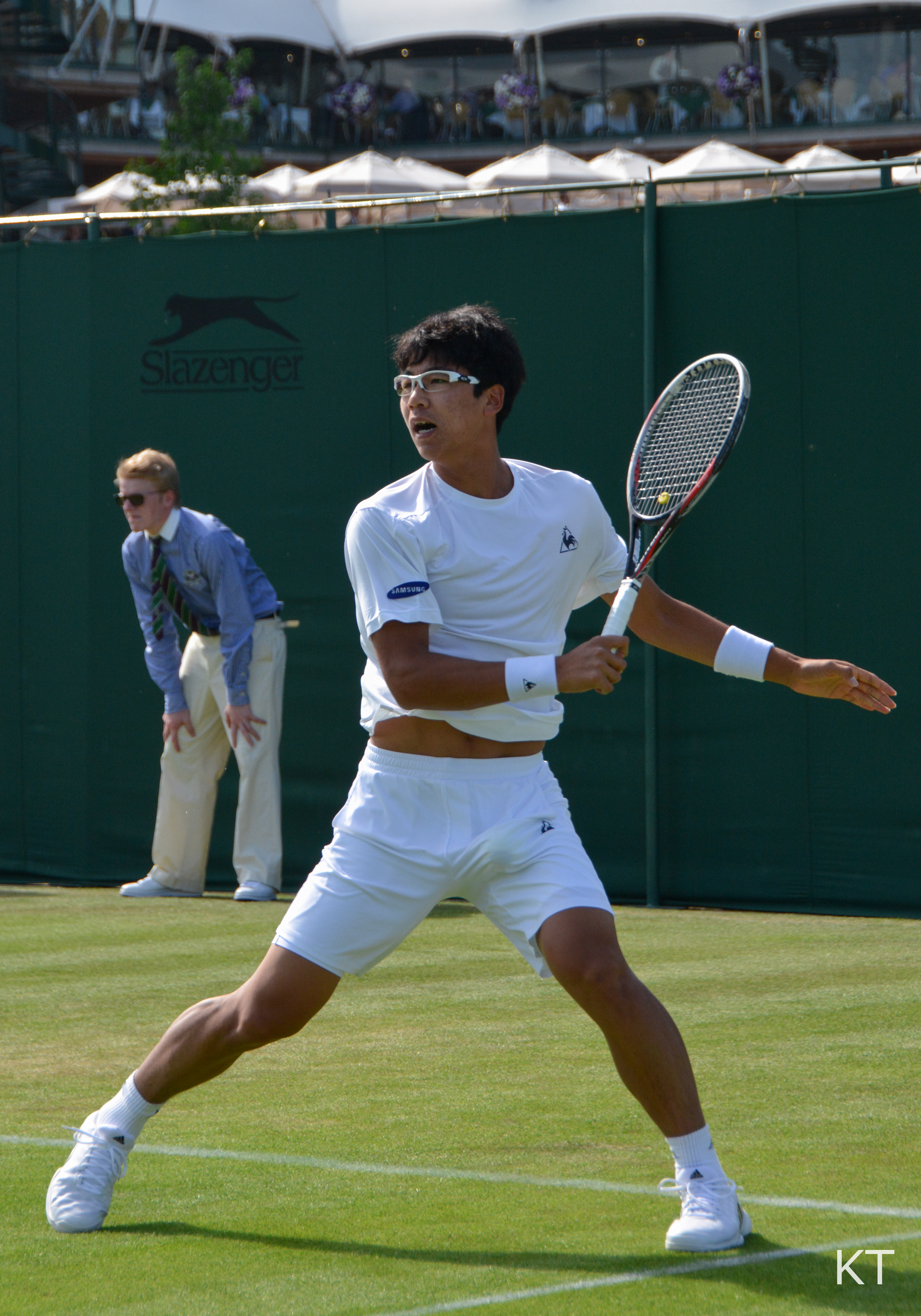 Day 1 of Wimbledon 2015